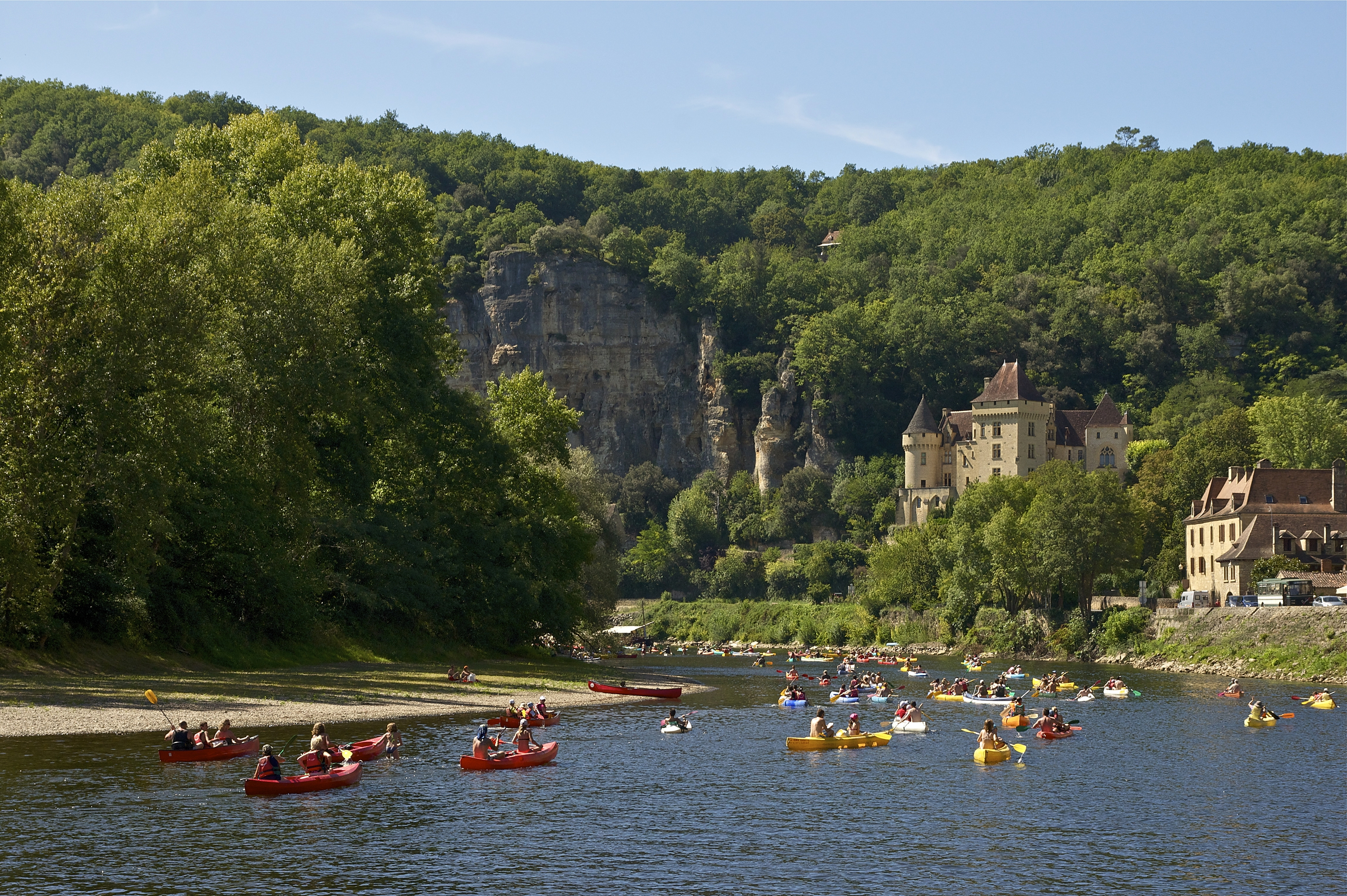 Canoeing on the Dordogne river, in La Roque Gageac, Dordogne department, France.